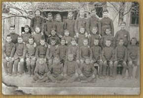 Bulgarian Men's High School of Adrianople